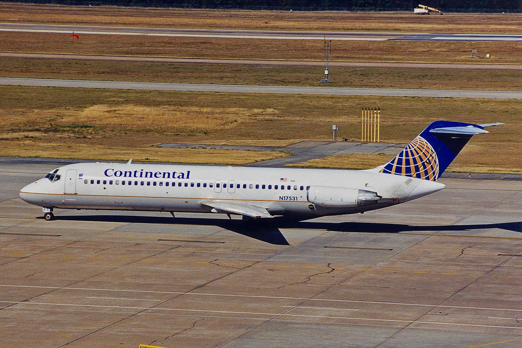 A picture of an airplane